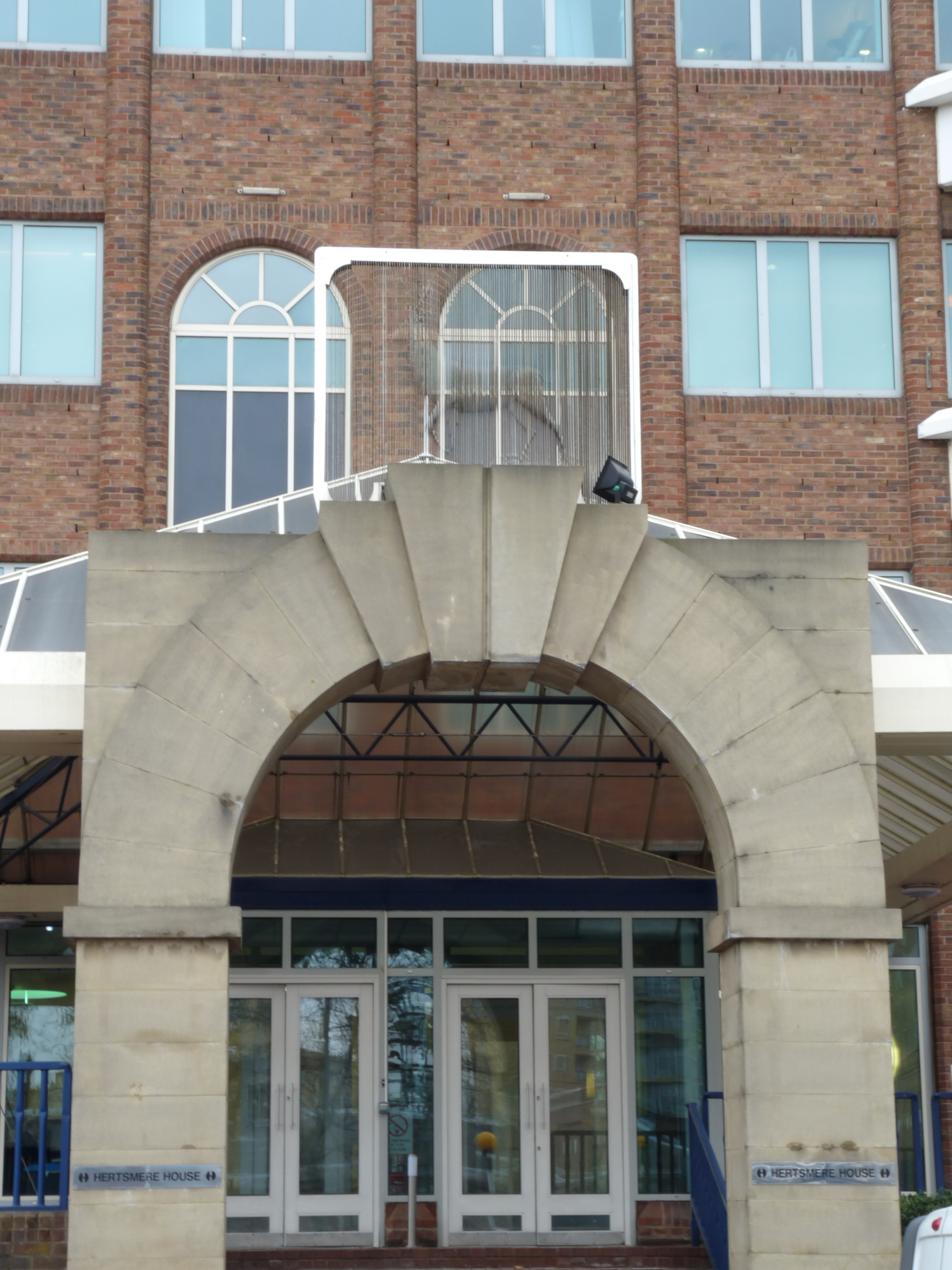 Relief of deer above entrance to Hertsmere House, Hertsmere Road, West India Quay. This view is from nearly straight on showing the gaps between the thin sheets of metal that form the artwork